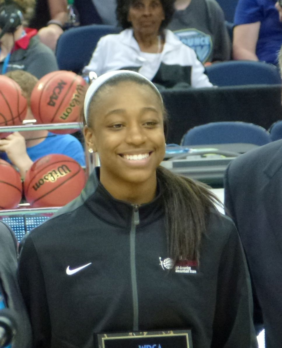 Jewell Loyd at the 2015 WBCA convention, being named to the 2015 WBCA All-America team